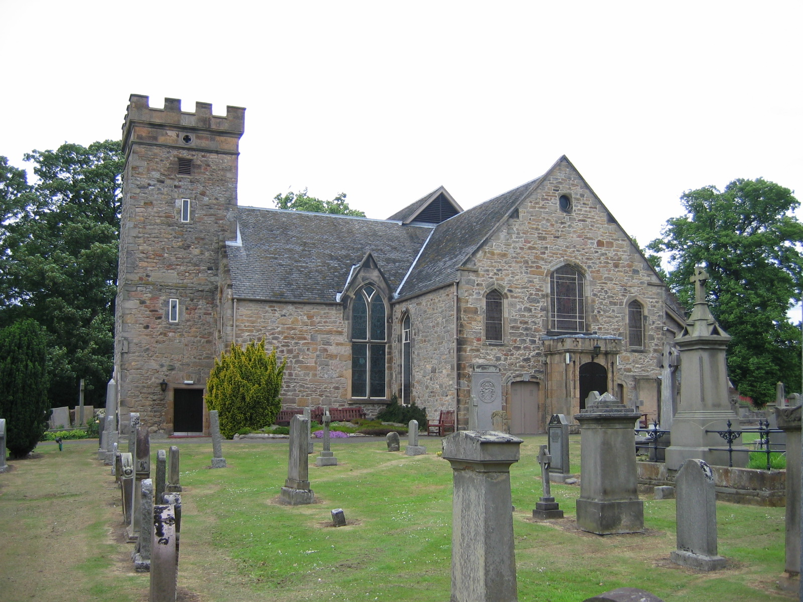 Cramond Kirk, Cramond village, Edinburgh, Scotland